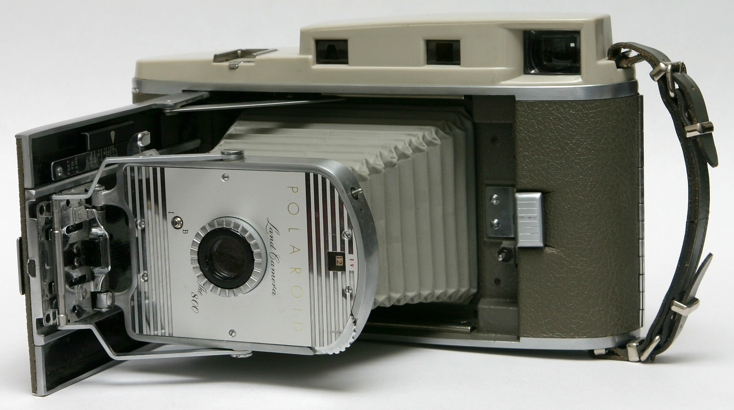 Polaroid Land Camera Model 800 "The 800" from front with cover opened and bellows unfolded